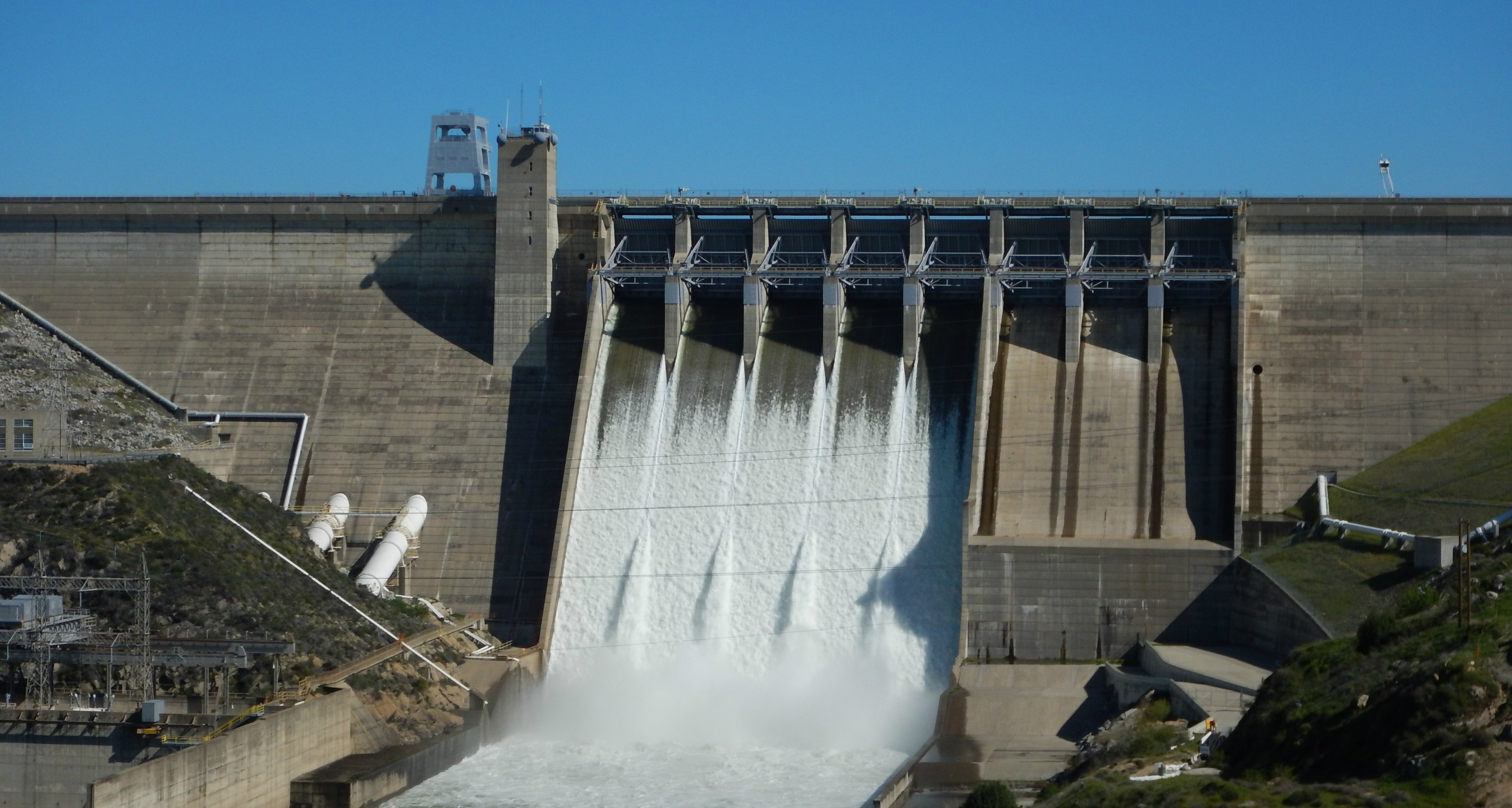 Photograph of the Folsom Dam releasing water from Folsom Lake.